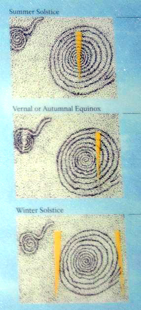 Fajada Butte diagram. Work of the NPS.